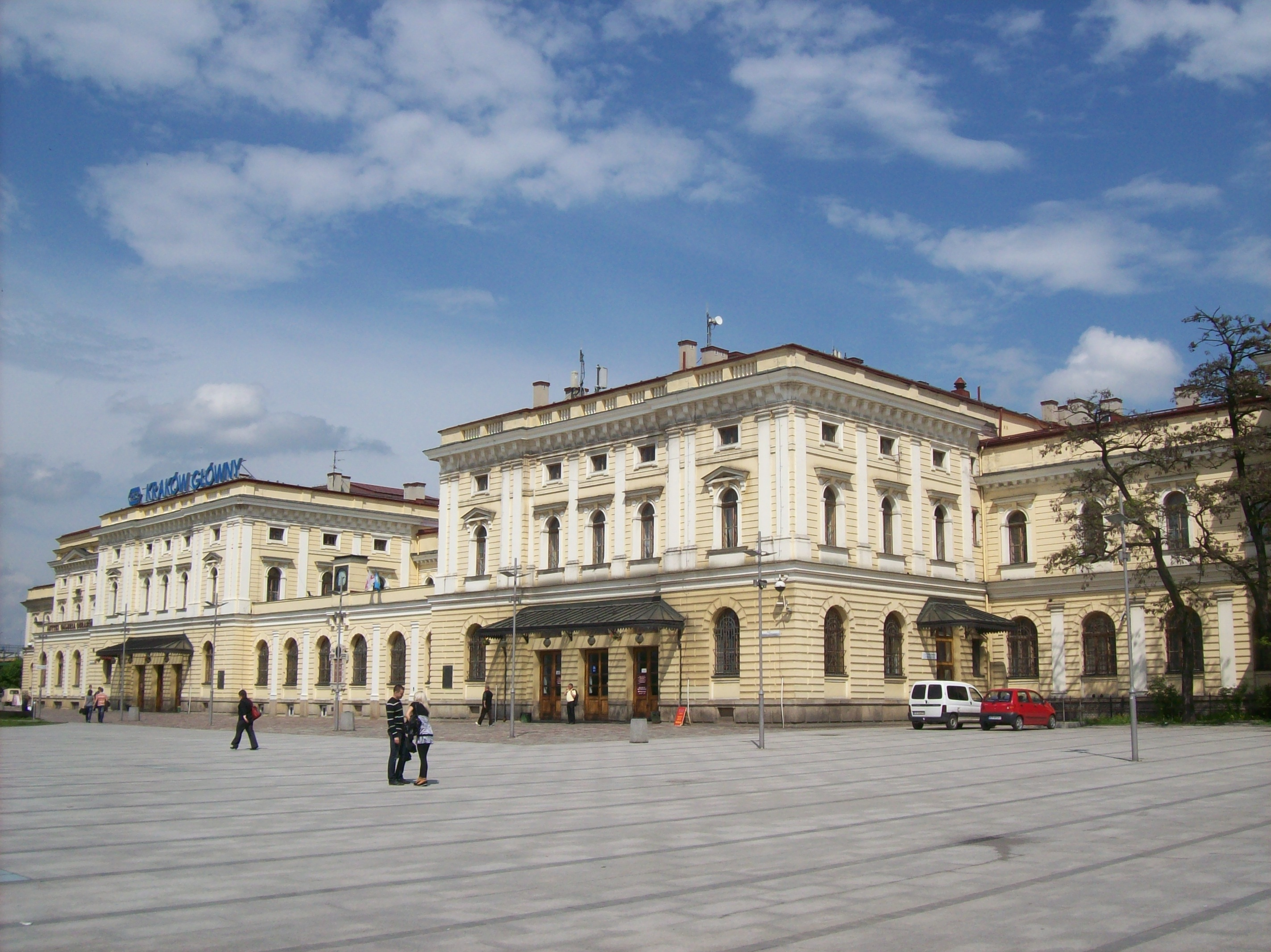 Main train station in Kraków.